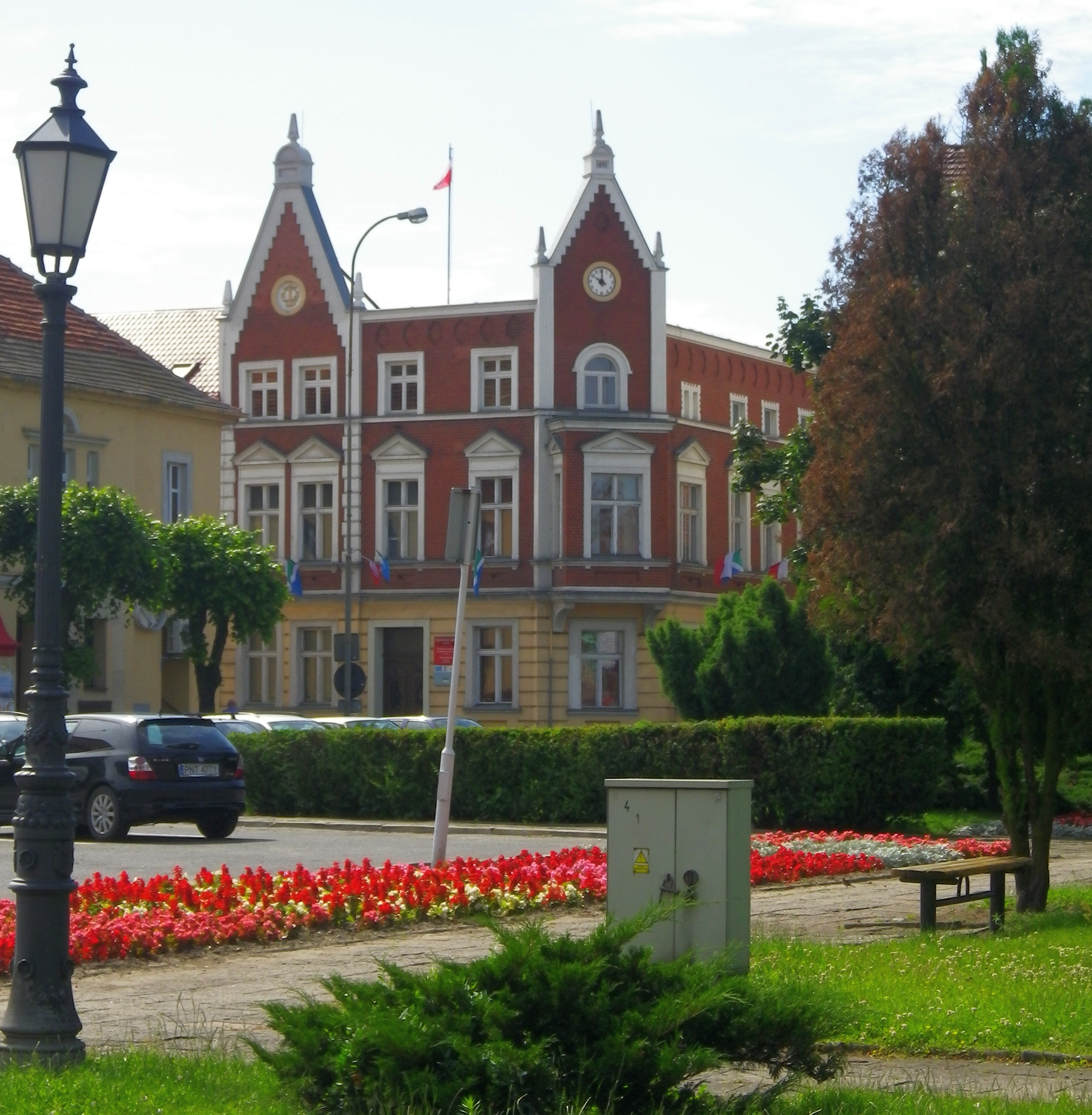 Town Hall in Buk (Poland, Greater Poland Voivodeship), build in 1897, viewed from NW direction. In the corner visible also Plac Przemysława 24 residential building, cultural heritage monument